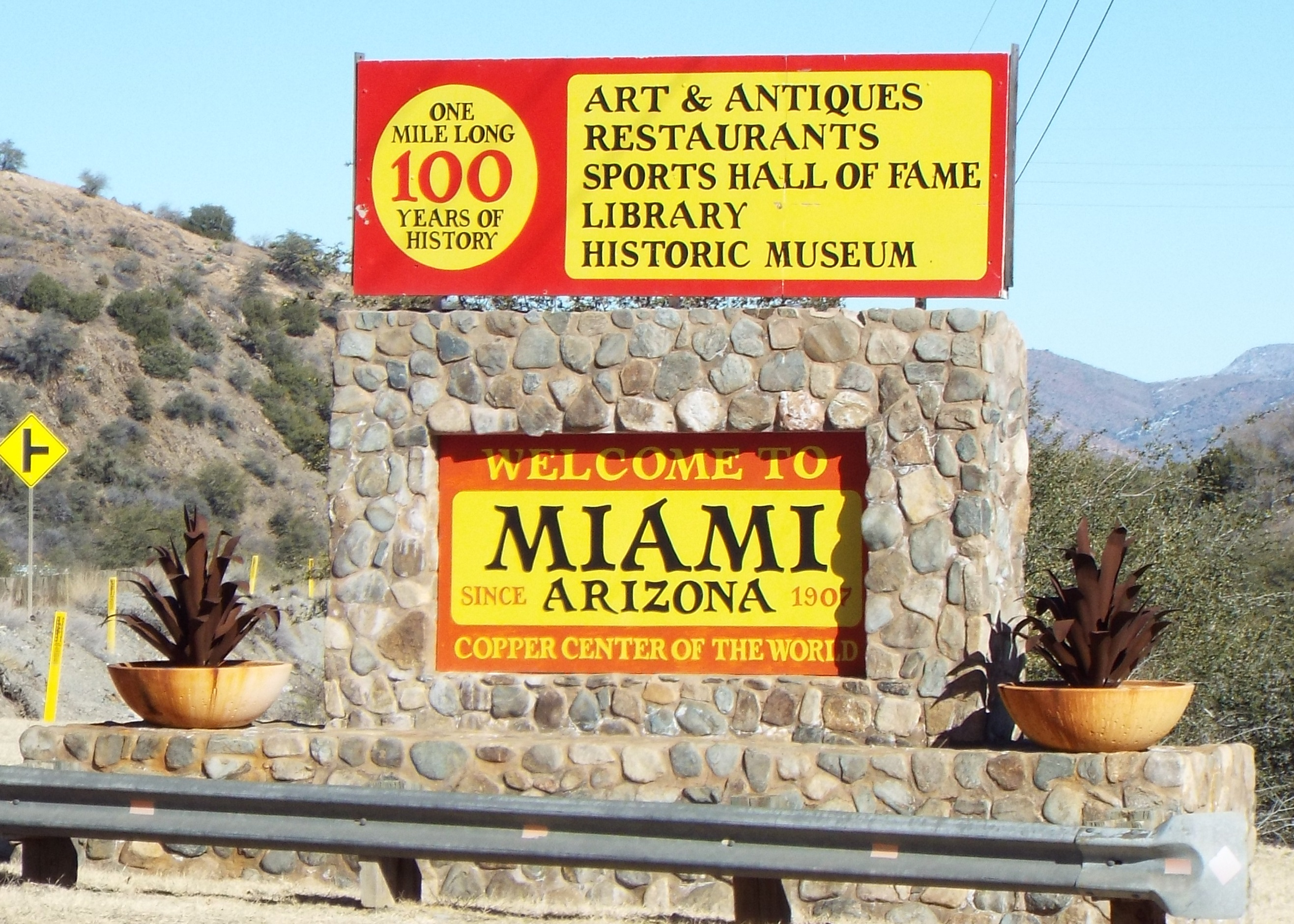 Welcome to Miami, Arizona